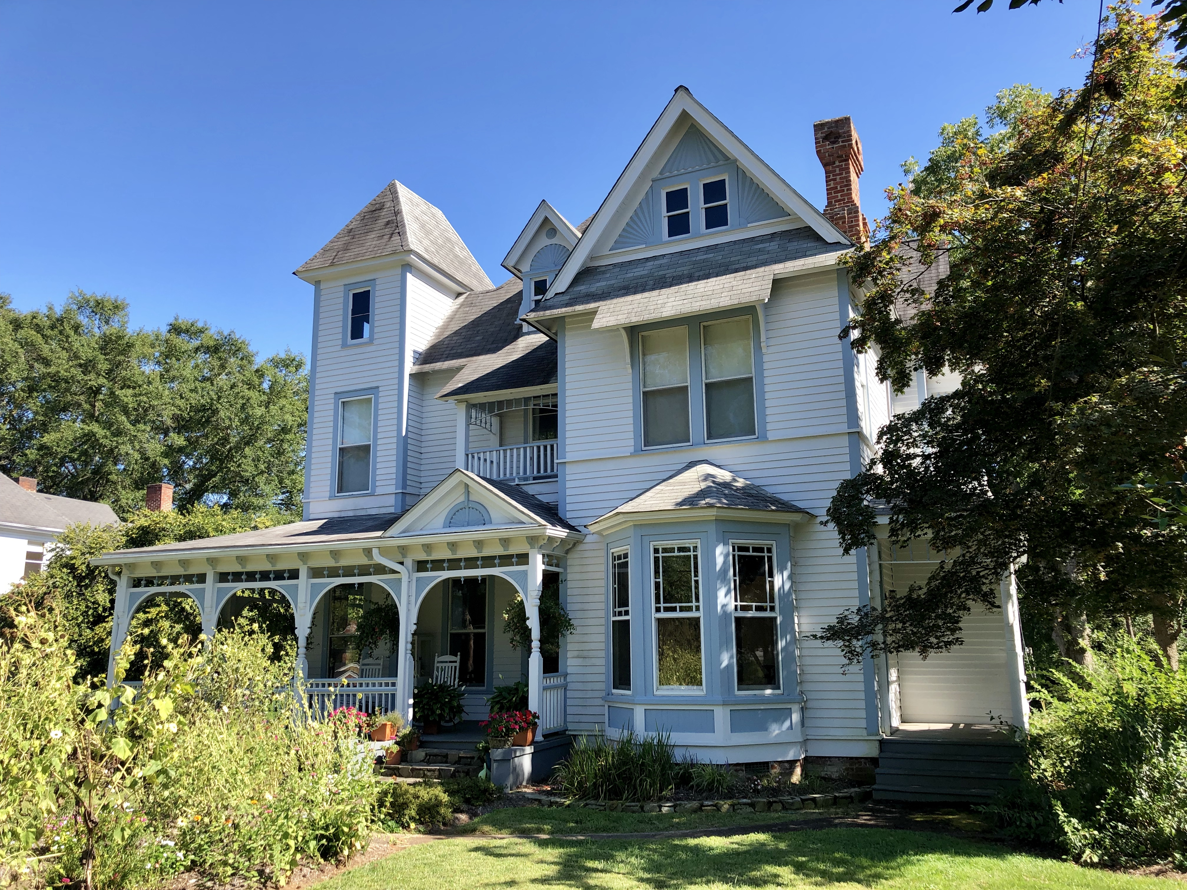 This is the Joseph Bennett Riddle House, located on West Union Street in Morganton, North Carolina. Constructed circa 1892, the house was listed on the National Register of Historic Places in 1984.